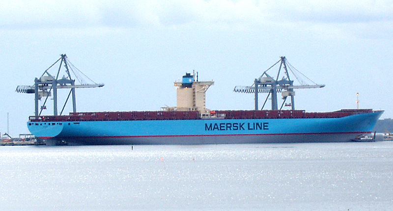 Emma Maersk, the world's currently largest container ship in Aarhus august 2006 IMO-number: 9321483 MMSI-number: 220417000 Callsign: OYGR2 Length: 398m Beam: 56 m Information about Emma Mærsk may be found at IMO 9321483. A ship can change her name and flag state through time, but the IMO number remains the same through the hull's entire lifetime. Therefore, it's useful to identify a ship through her IMO number.